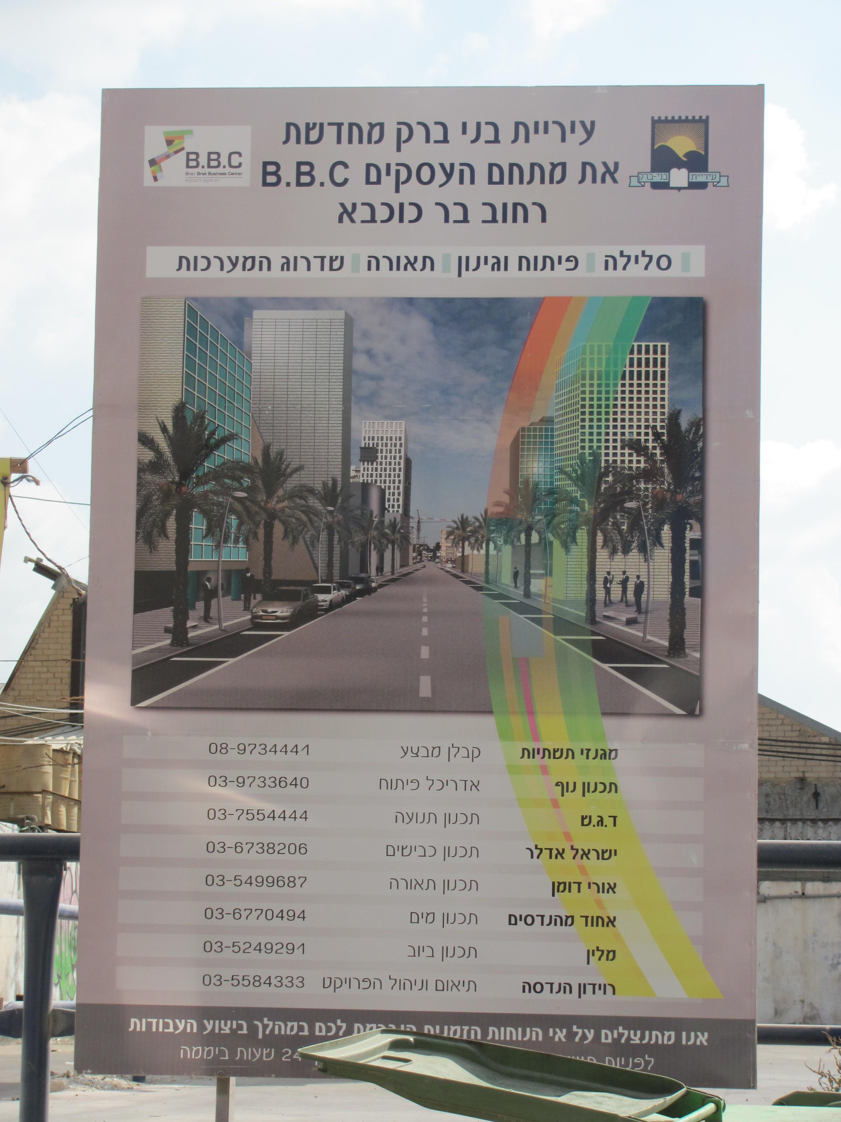 An introductory sign for the Bney Brak Business Centre (BBC).